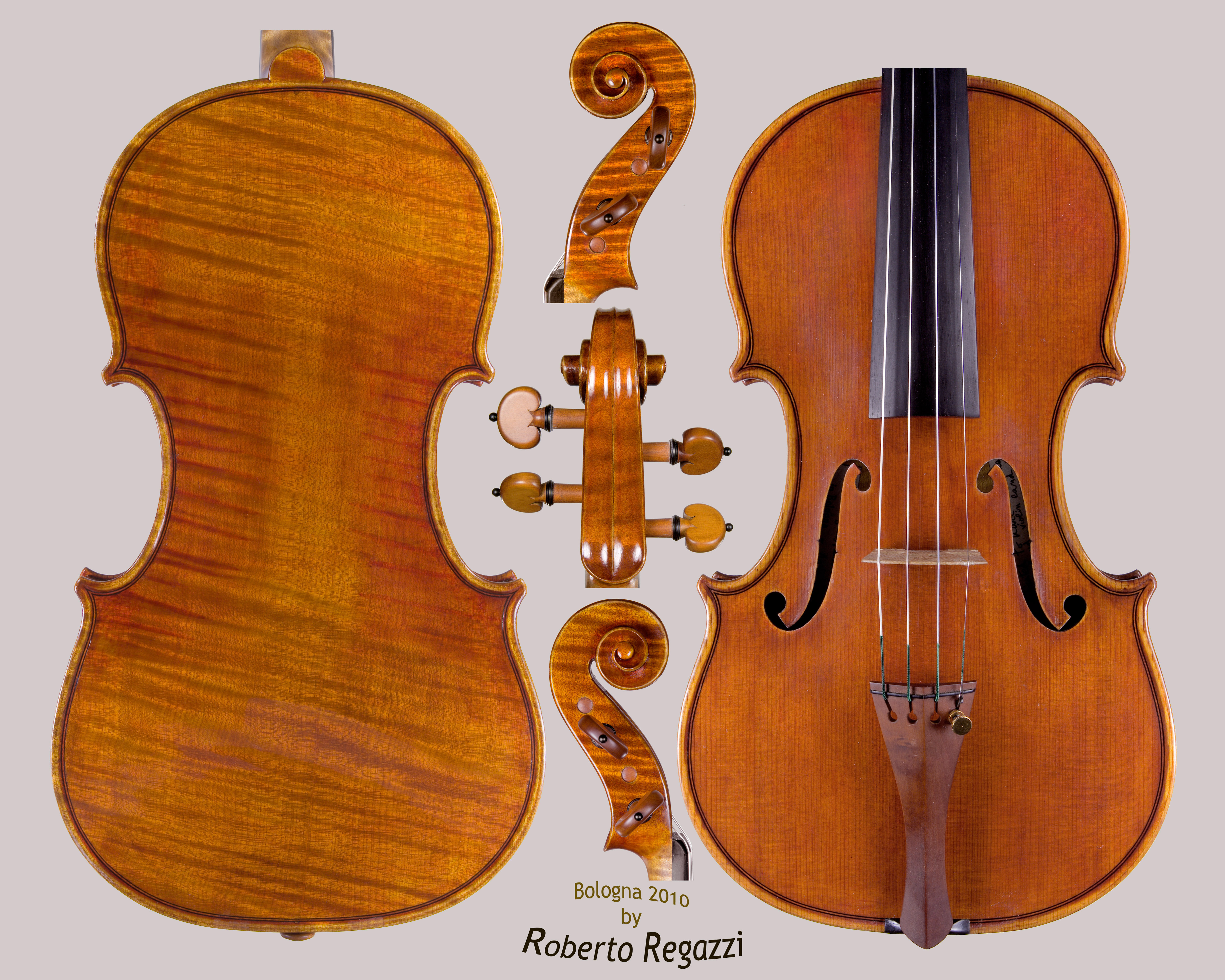 High resolution image of a violin made by Roberto Regazzi, completed in 2010